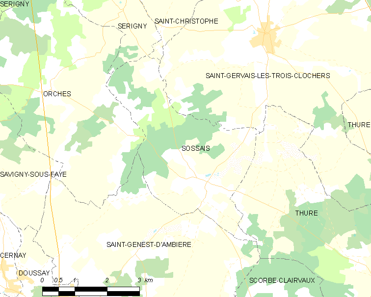 Map of French municipality Sossais